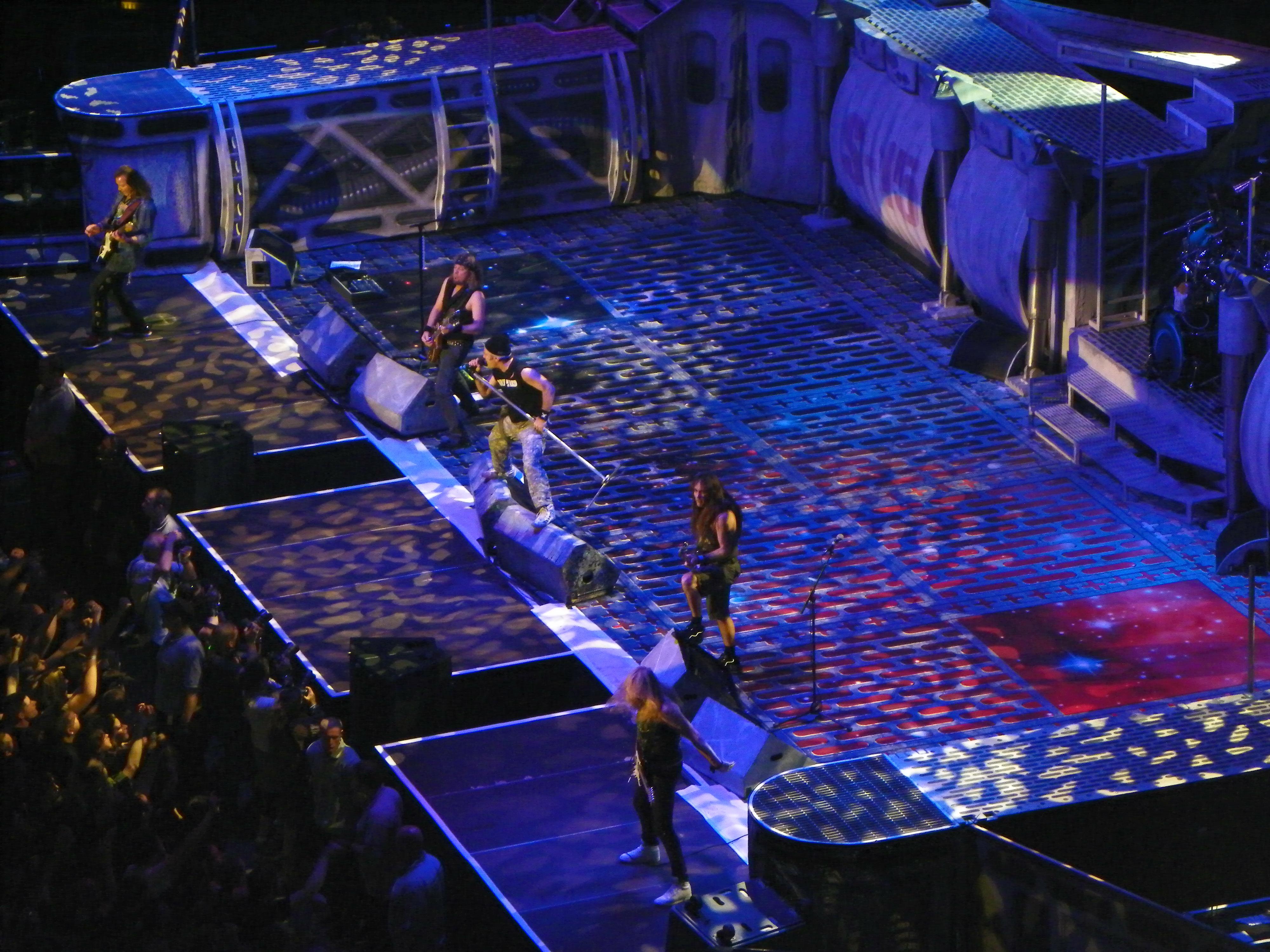 Iron Maiden live in Hamburg, 2 June 2011.